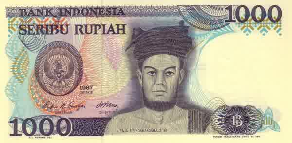 Indonesian currency issued 1976-2000.